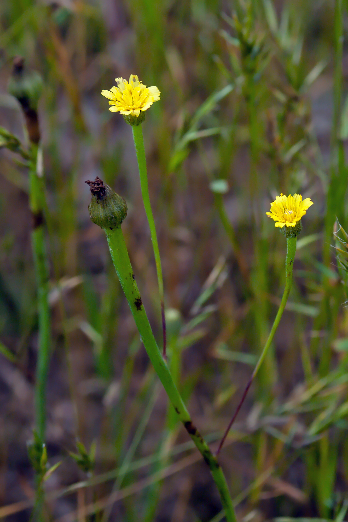 Inflorescences of Arnoseris minima, in typical association with the grass Anthoxanthum aristatum on a sandy, nutrient-poor field.